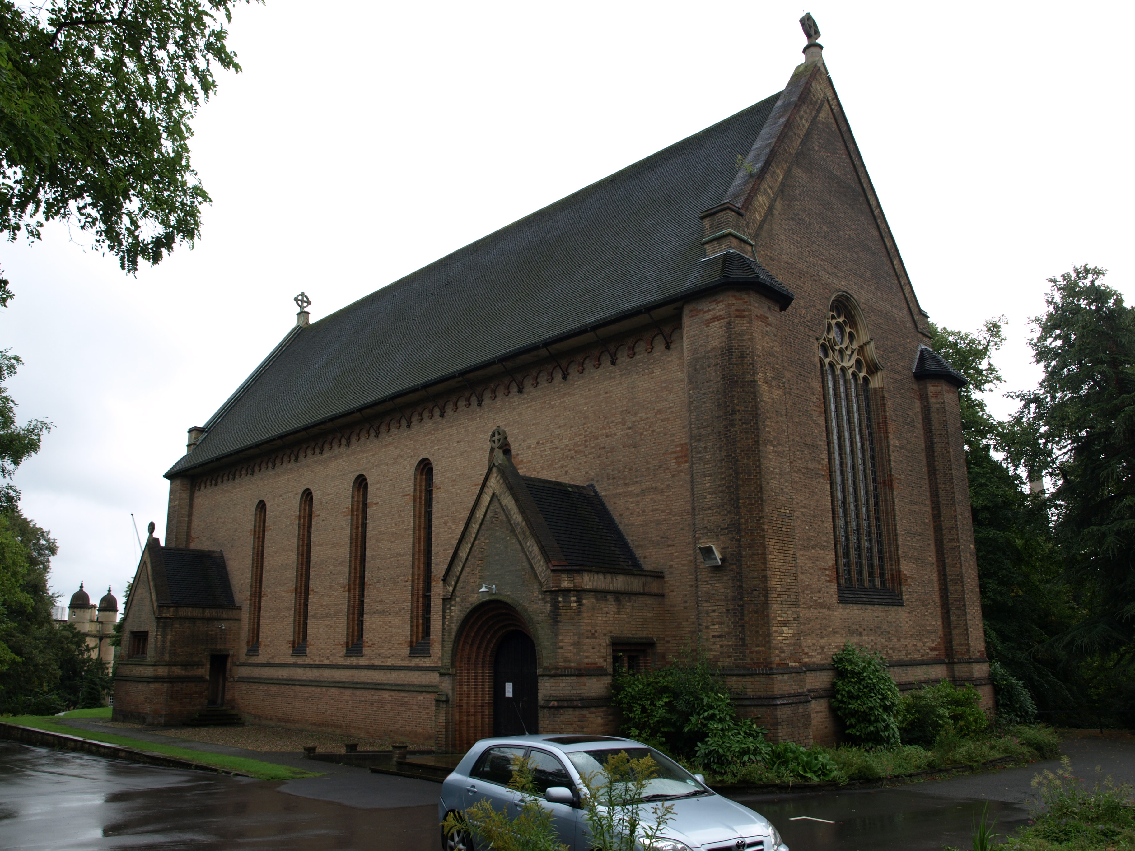 St Mary's parish church, Wollaton Park, Nottingham, seen from the west